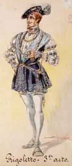 Rigoletto-Duke-1852-Betout